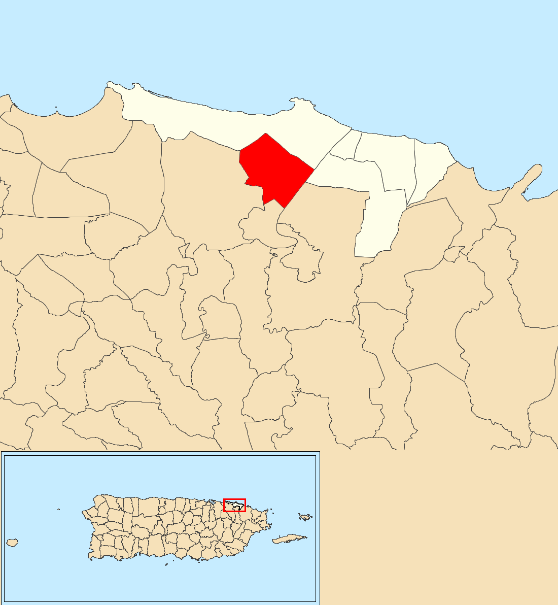 Torrecilla Alta, Loíza, Puerto Rico locator map